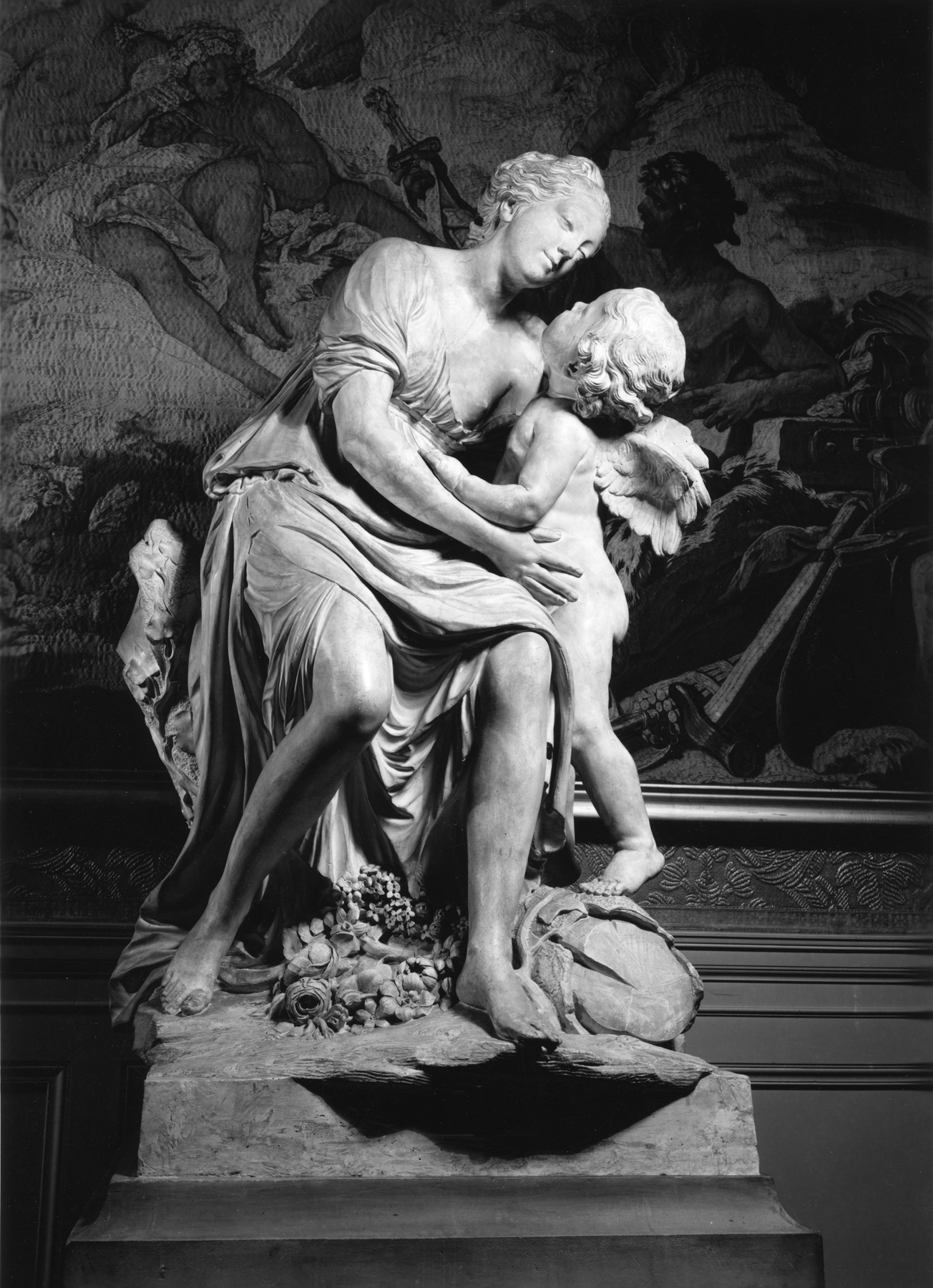 In 1754, Mme de Pompadour commissioned from Pigalle the original marble, now in the Louvre Museum, Paris ( RF 297). It was intended for her château in Bellevue on the outskirts of Paris and served as an allegory of her relationship with Louis XV, which had changed from that of mistress to confidant. Her features are recognizable on the figure of Friendship. After Mme de Pompadour's death, the statue was acquired by Louis Joseph de Bourbon, prince of Condé. In 1783, Marie Catherine de Brignole, the mistress of the prince of Condé, ordered this plaster version for the "Temple of Love" on her estate at Betz, in northern France. Pigalle, who was then 69 years old, consented to have his younger colleague Dejoux cast the piece. The statue and temple commemorated her love for the prince of Condé, who later became her husband.